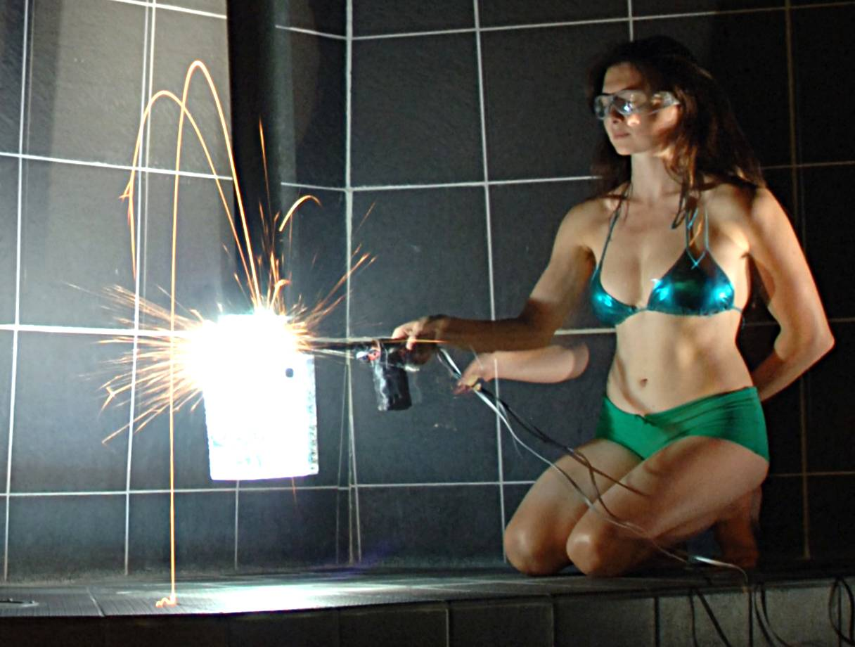 Plasmaphone performance at ICMC 2007. See also Full size image